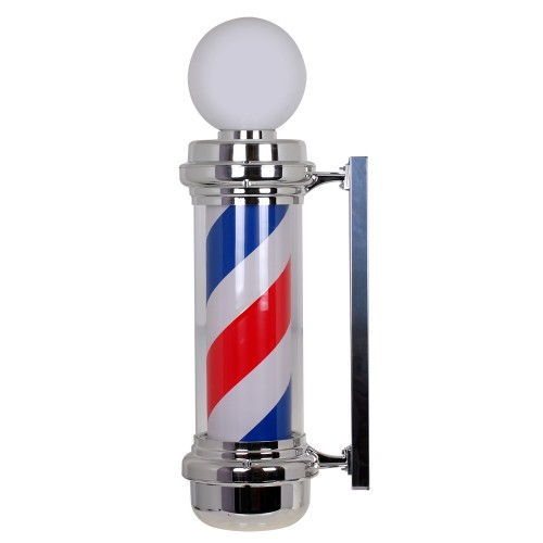 A barber pole.